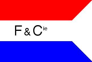 House flag of the Compagnie de Navigation Fraissinet